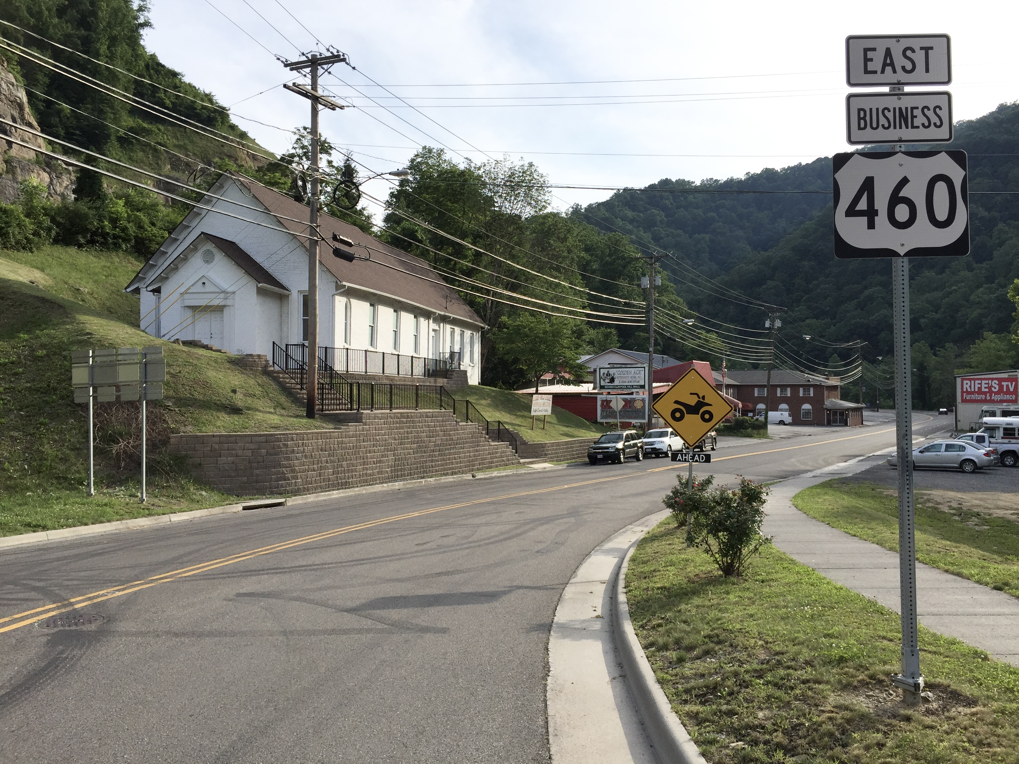 View east along U.S. Route 460 Business (Anchorage Circle) just east of U.S. Route 460 in Grundy, Buchanan County, Virginia